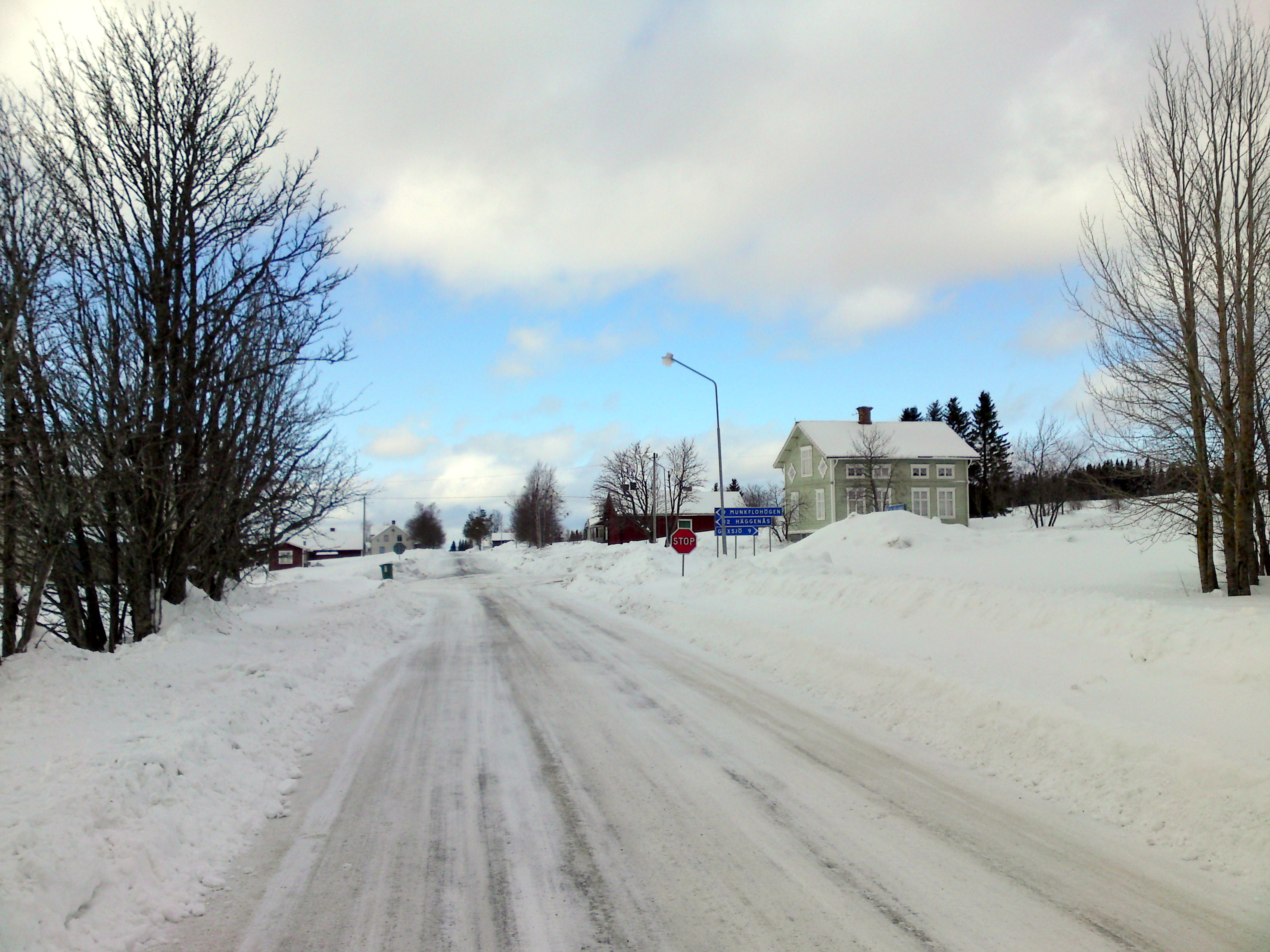 The village of Raftsjöhöjden in Jämtland, Sweden.